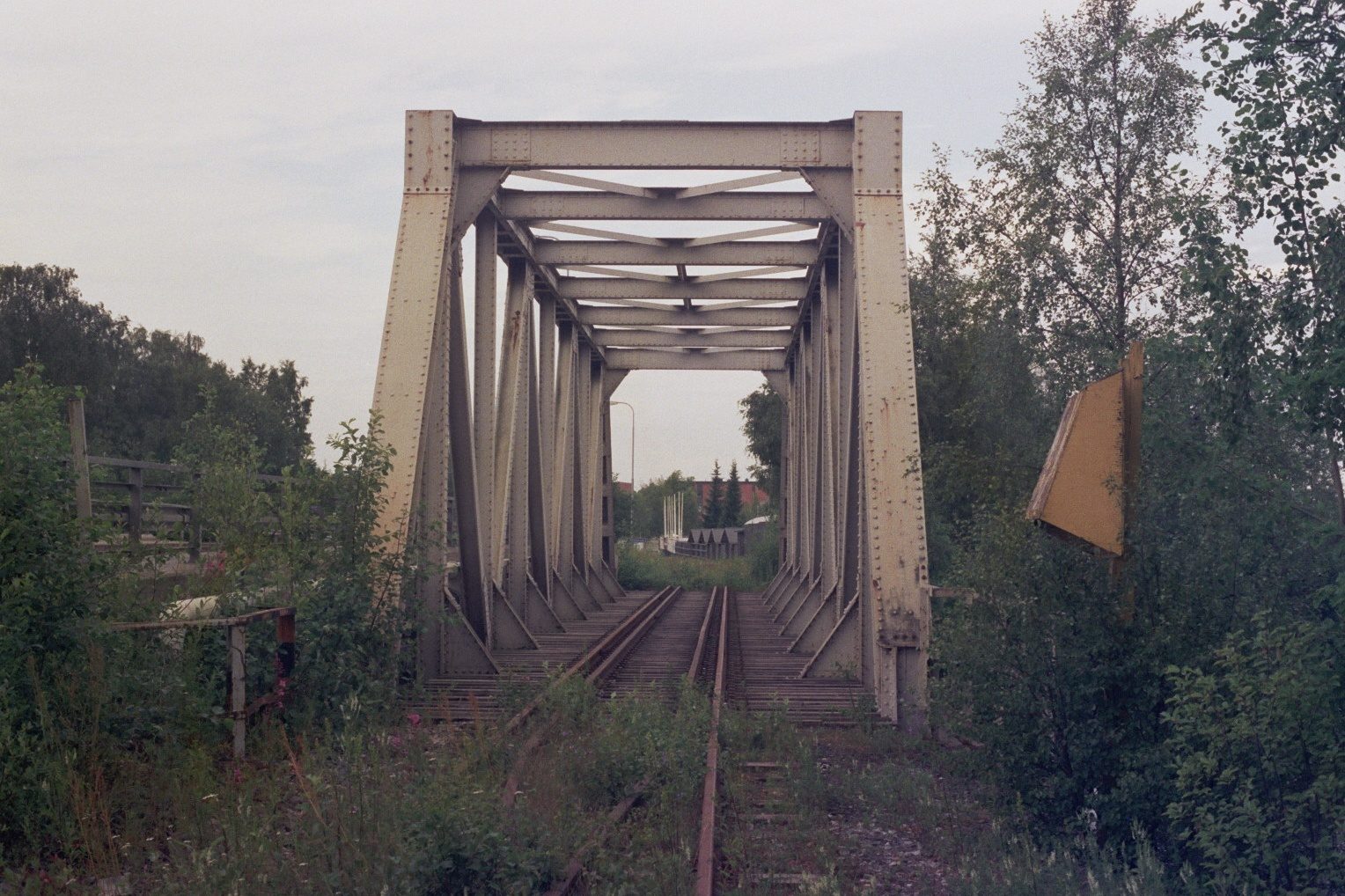 The railway bridge crossing the Strait of Toppila in Oulu, Finland. It is connecting the Hietasaari area (on the opposite side) with the Toppila and Tuira areas of the city.